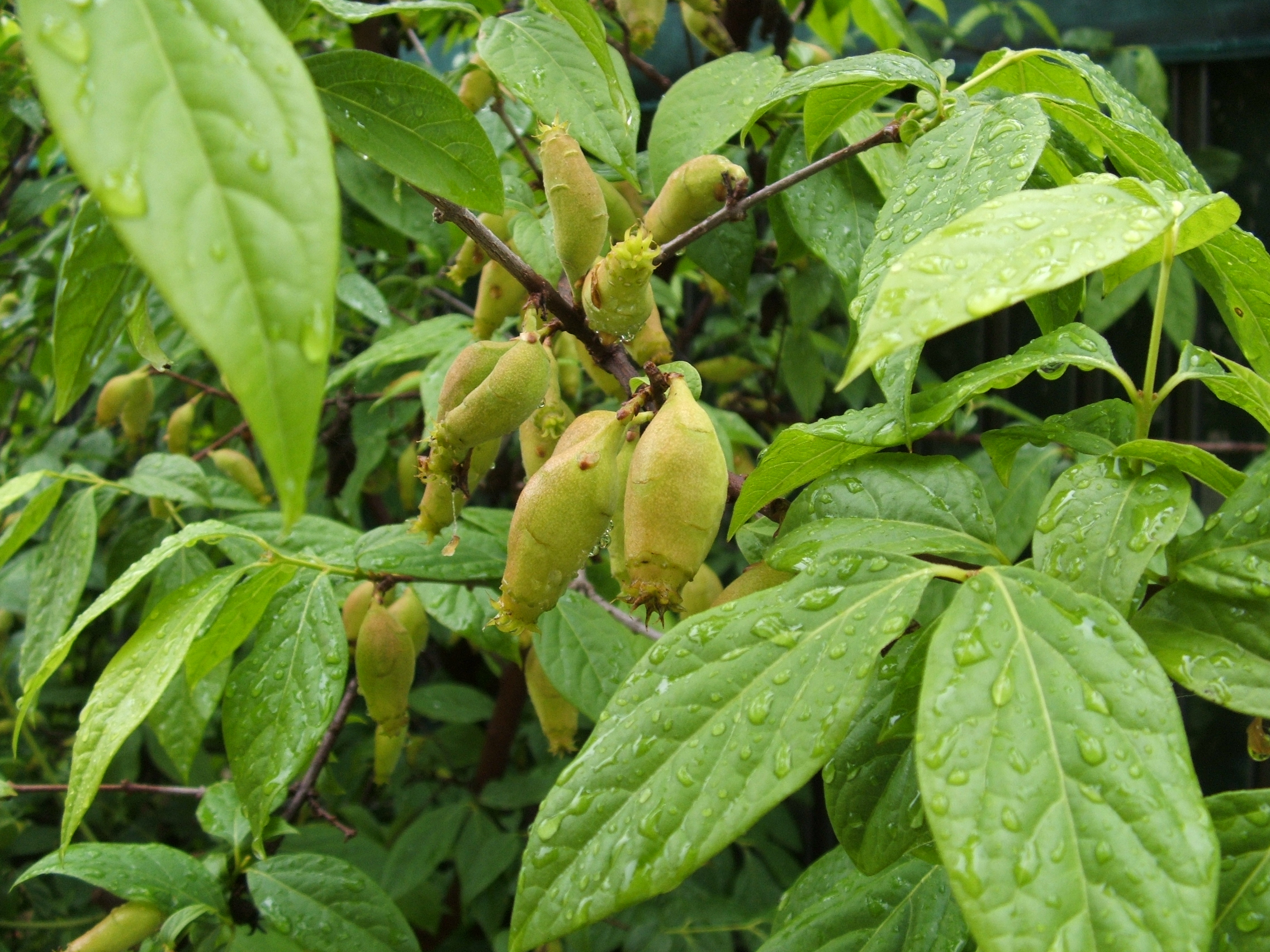 Fruits and leaves